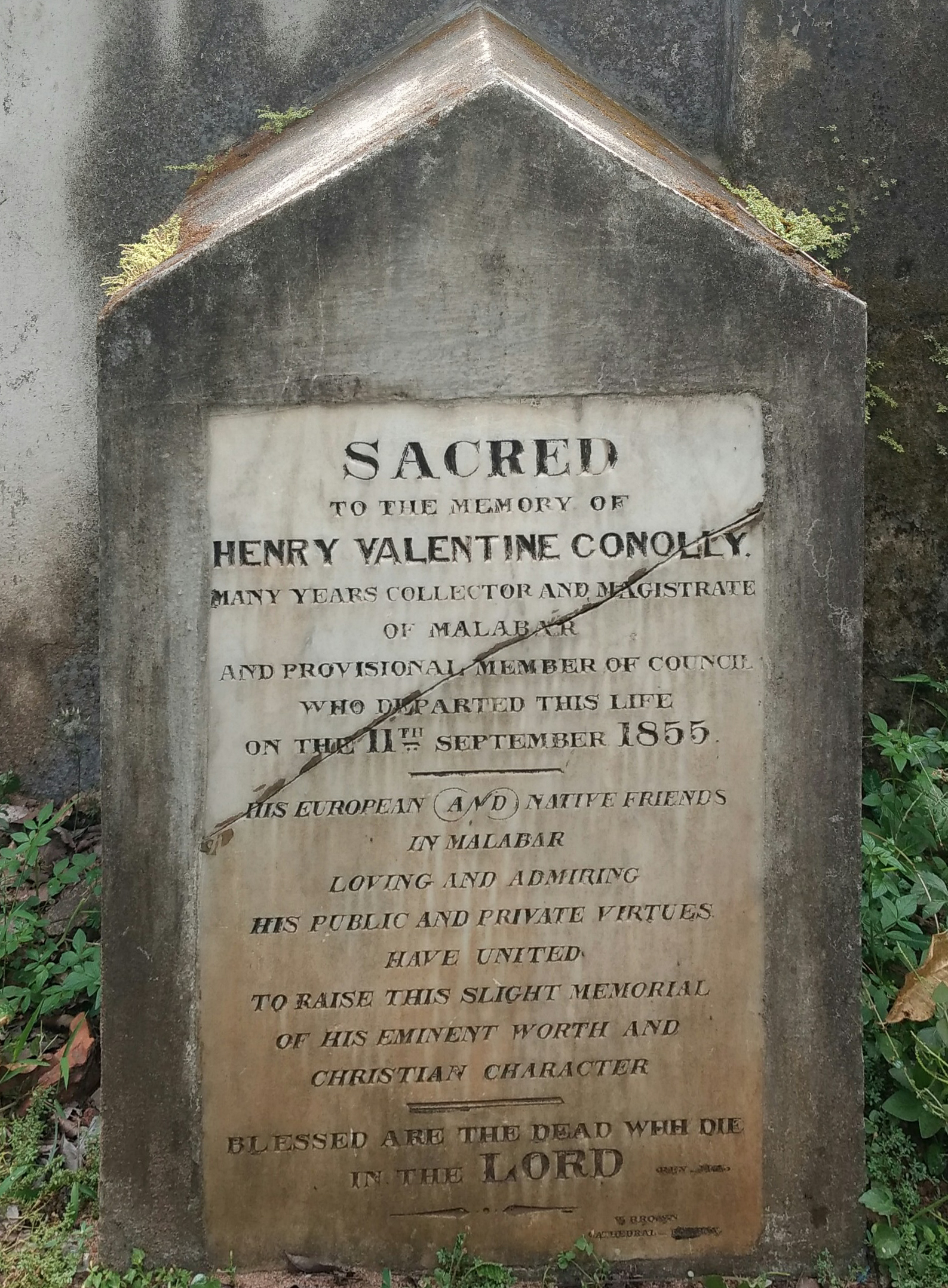 Memorial for Henry Valentine Connolly at Calicut.